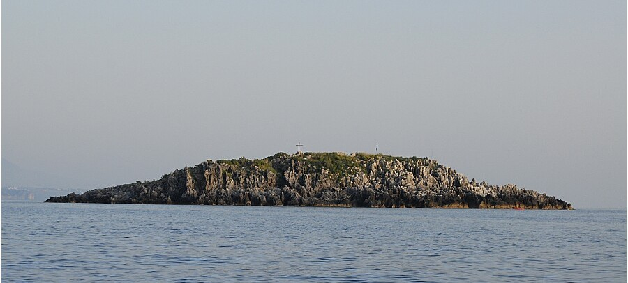 islands of Maratea